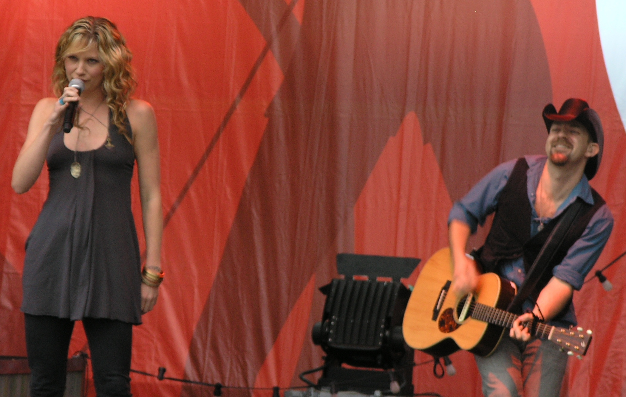 Taken during MyCokeFest at Centennial Olympic Park in Atlanta